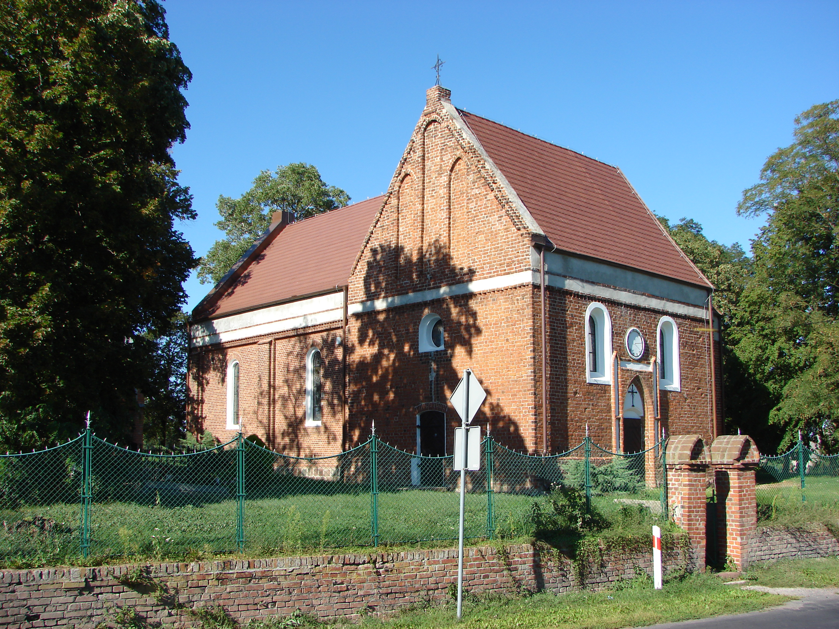 Trląg, Gmina Janikowo, Poland. Church os Saints Peter and Paul. Built in the second half of 14th century and rebuilt in years 1935-1937.